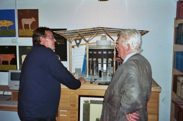 Swedish comedian, writer and director Hans Alfredson (to the right) watching a model of the Swedish pavillion at the world's fair in Sevilla in 1992 ("Exposición Universal de Sevilla"). Alfredson was responsible for the Swedish part of the exhibition. To the left is Olof Jarlman, chairman of Akademiska Föreningen (the Acadamic Society) in Lund.